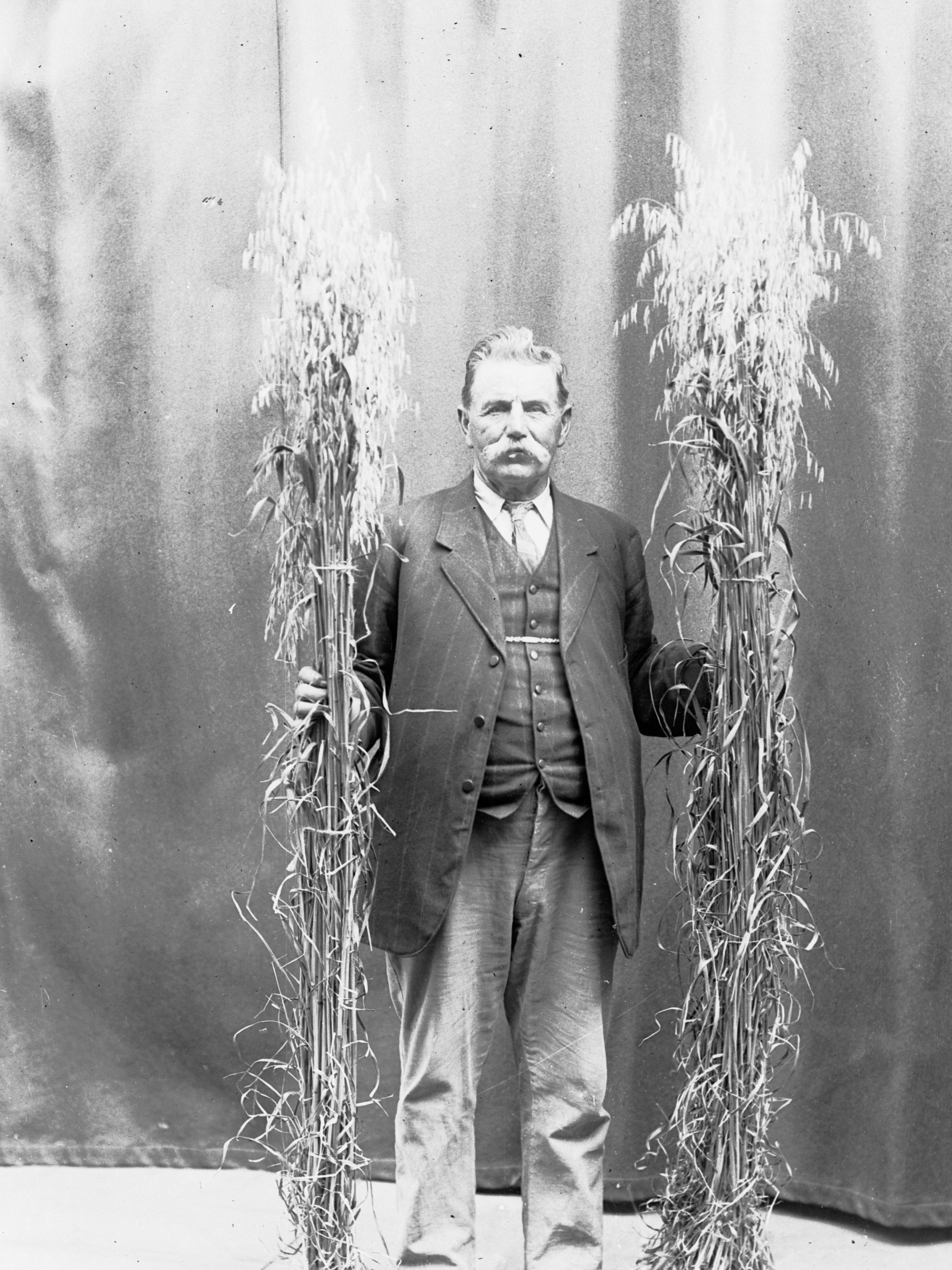 Man holding sample of oats from Mypolonga, (G Brooks considers it does appear to be oats), November 1915.